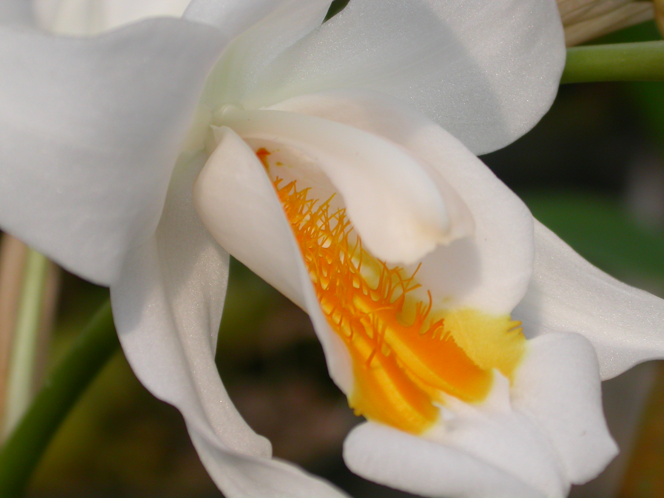 Coelogyne cristata lip